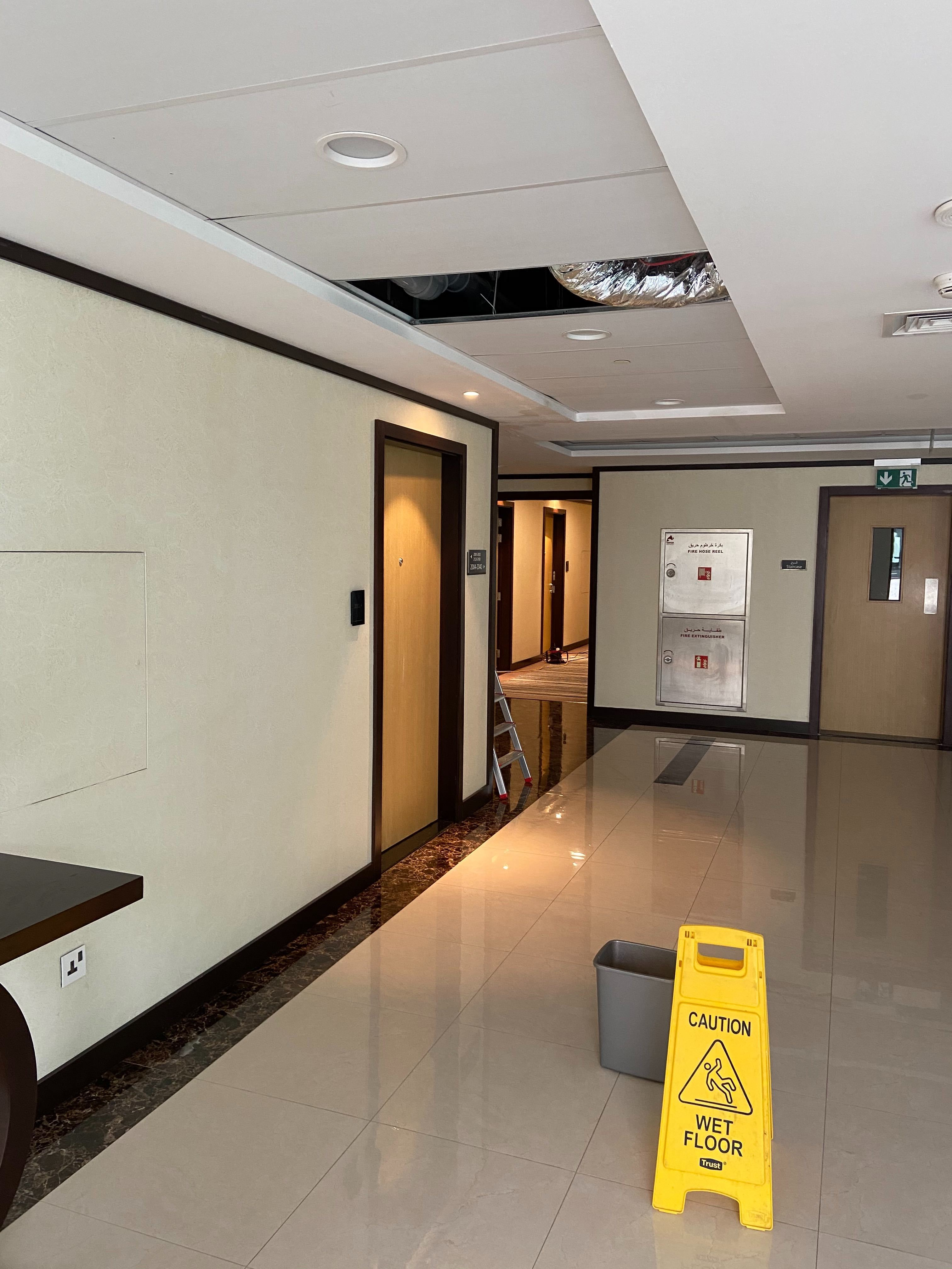 A hotel in Dubai flooded during the rains